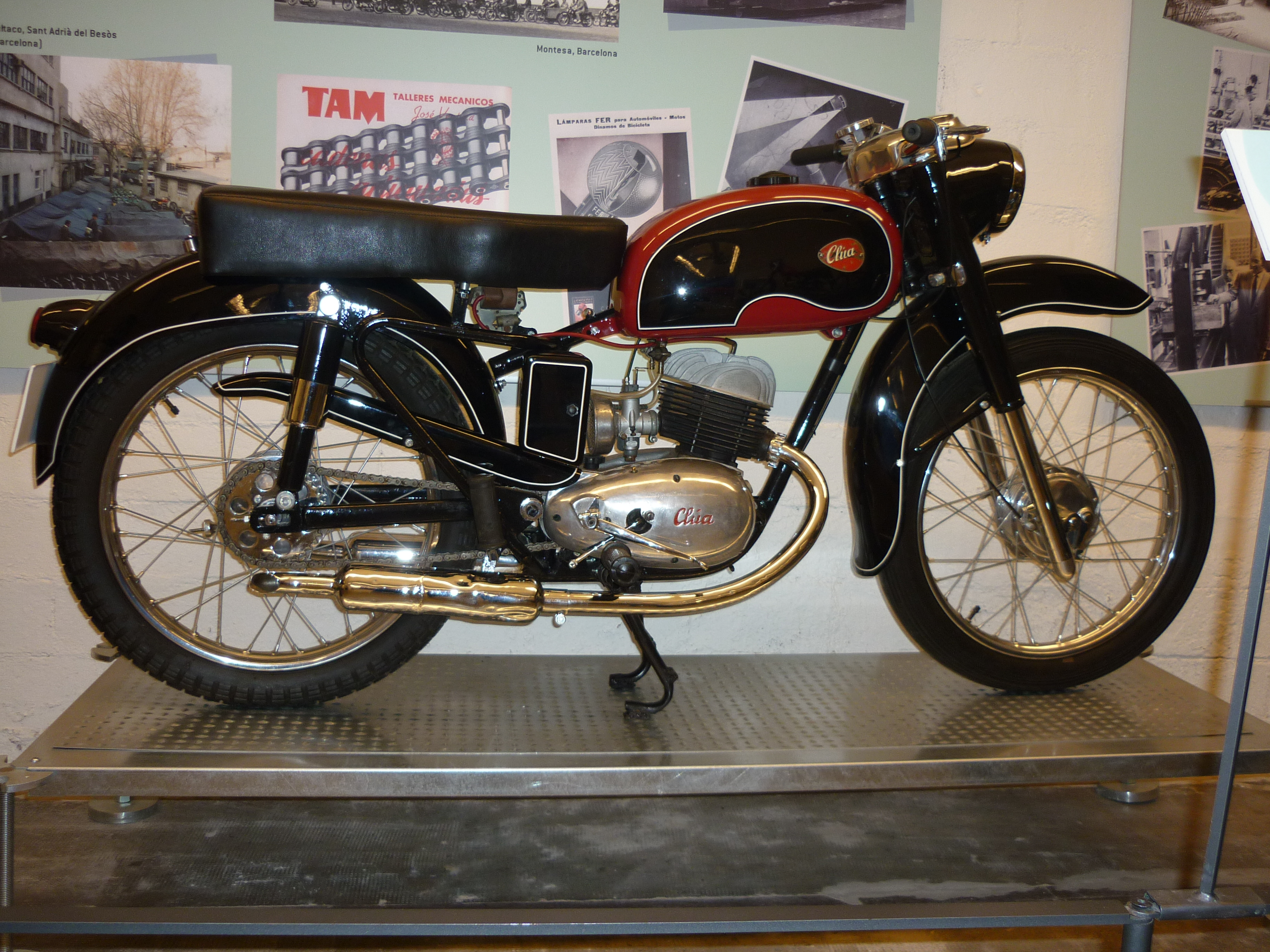 Clúa Sport 125cc (1955).Museu de la Moto de Barcelona (Catalonia).